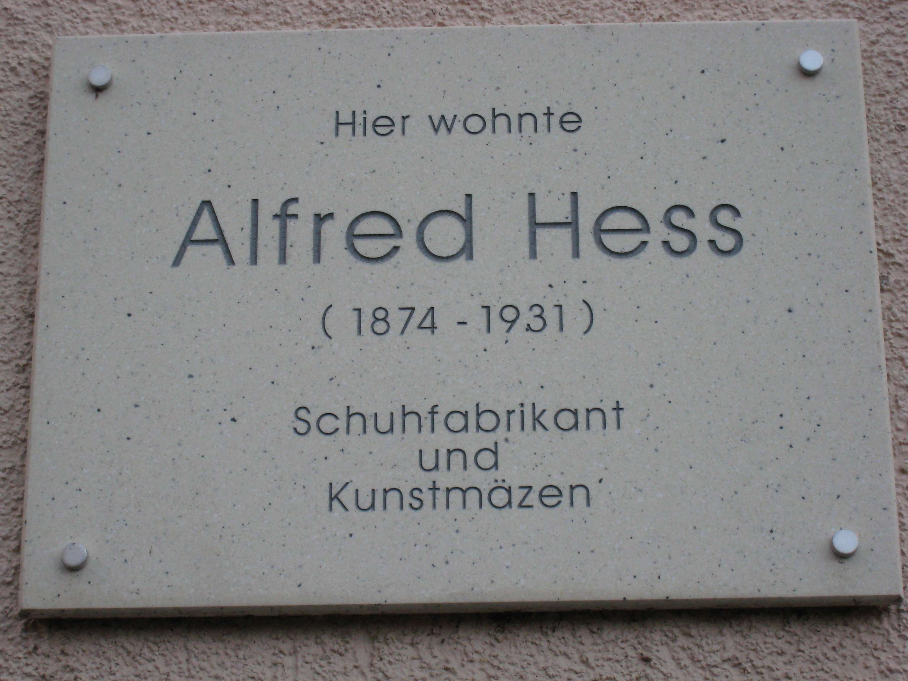 Memorial tablet for Alfred Hess at Hess villa in Alfred-Hess-Straße